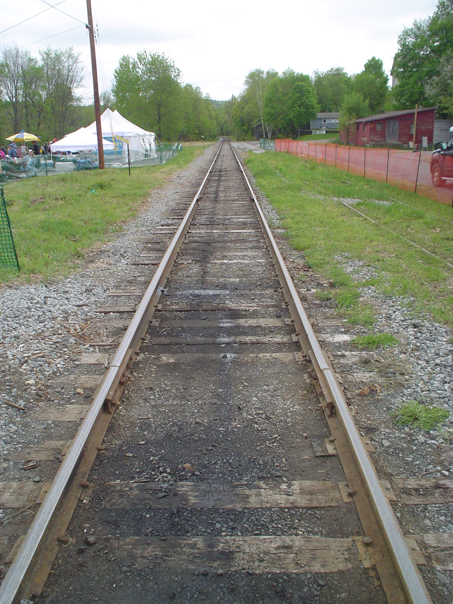 Railroad tracks "vanishing" into the distance